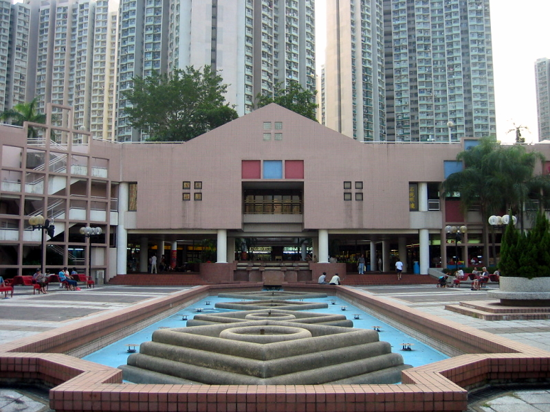 Tin Shui Estate Fountain before demolished